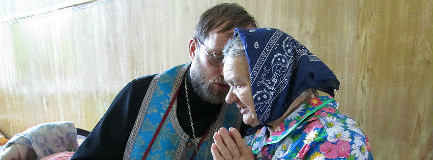 Священник Антоний Игнатьев разговаривает с пострадавшей от наводнения в Крымске. 2012